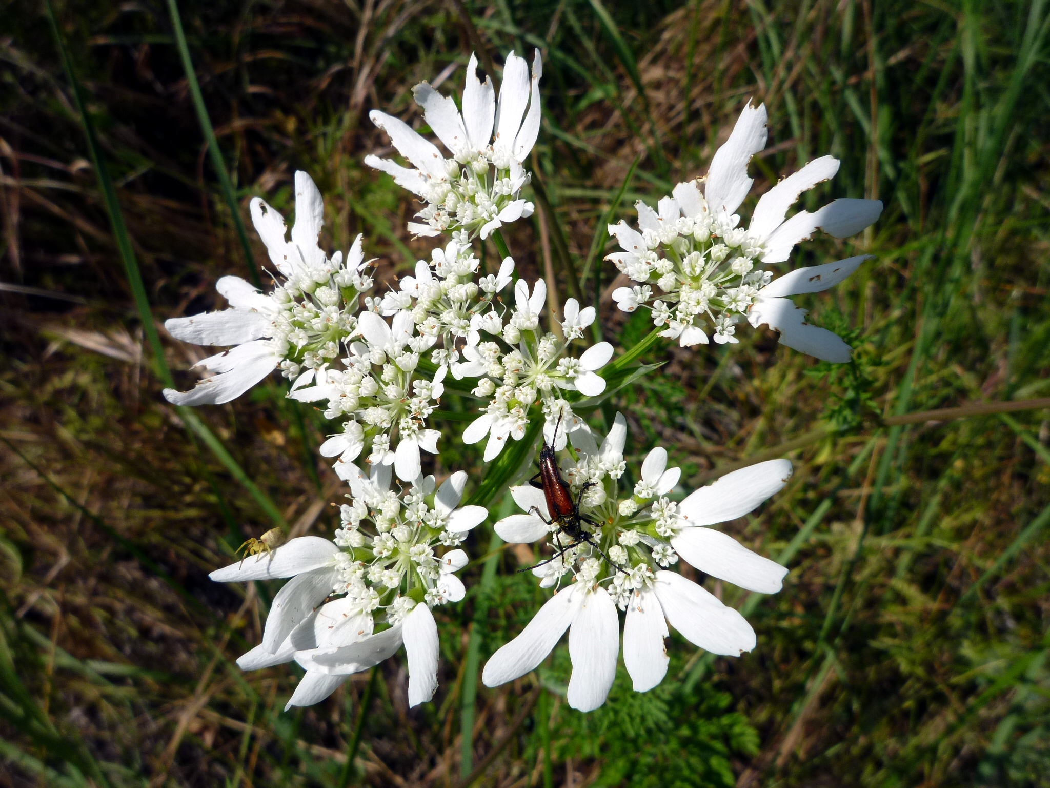 Torilis arvensis. In Torà (Segarra - Catalunya). To 530 m. altitude